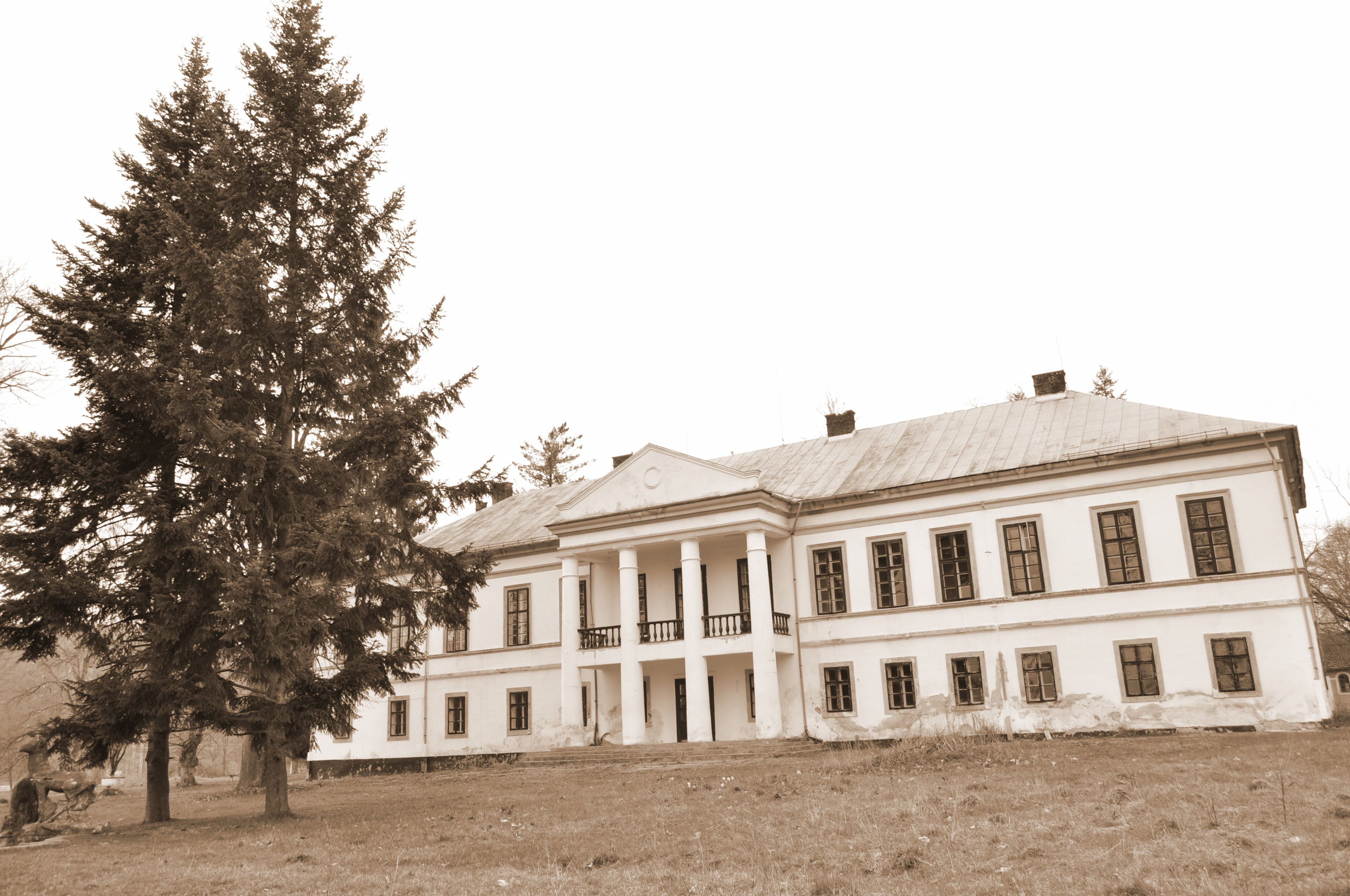 Salbek castle, Petriș, Arad county 01